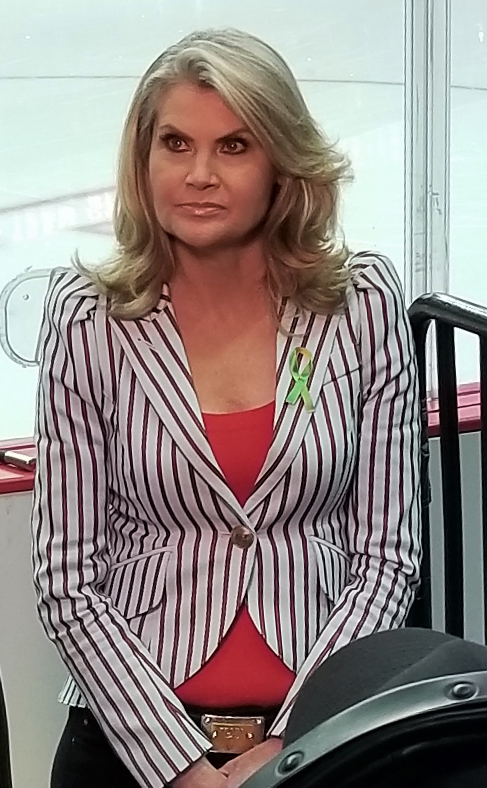 Christine Simpson preparing for game 1 of the second round series between the Pittsburgh Penguins and Washingtong Capitals at Capital One Arena in Washington, D.C.